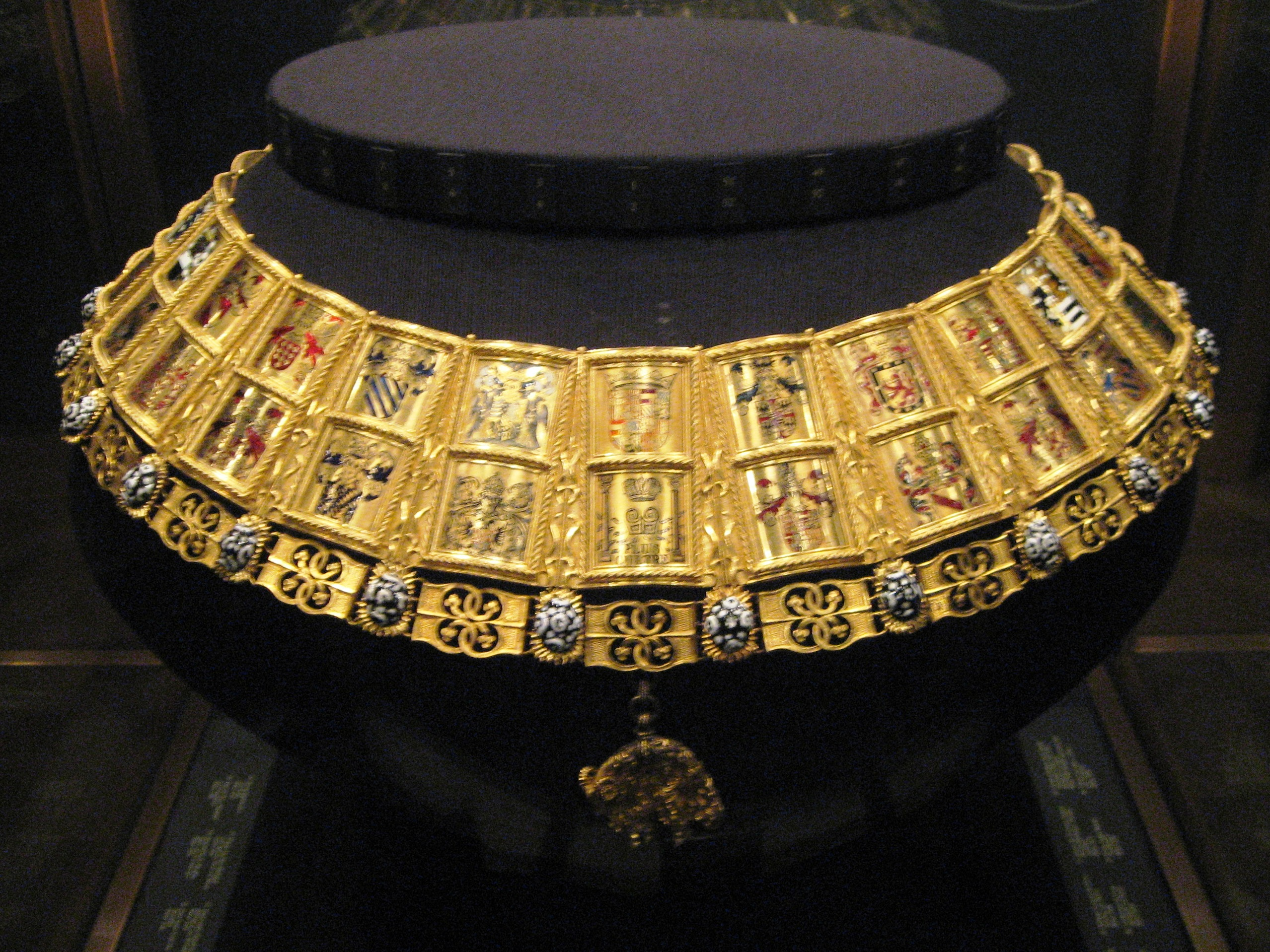 The Potence (Chain of Arms) of the Herald of the Order of the Golden Fleece Netherlandish Probably 1517 Gold, encrusted (en ronde bosse) enamelling, champlevé, enamel Outer cir. 143 cm, inner cir. 98.8 cm, total including outer chain 10.3 cm (without outer chain 7.8 cm) On loan from the Order of the Golden Fleece Vienna, KHM, Schatzkammer, Dep. Prot. 4